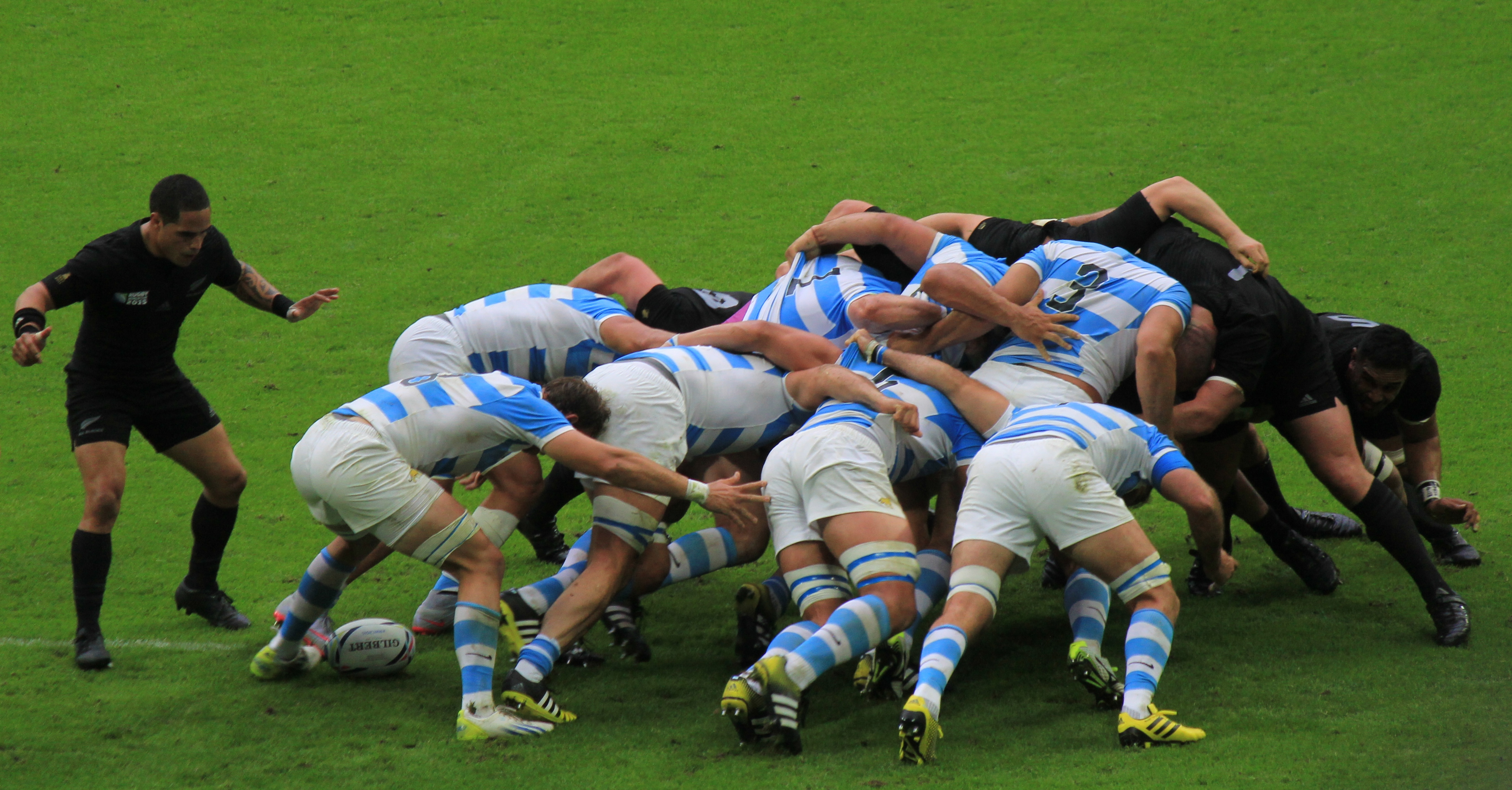 15-09 RWC New Zealand vs Argentina 059